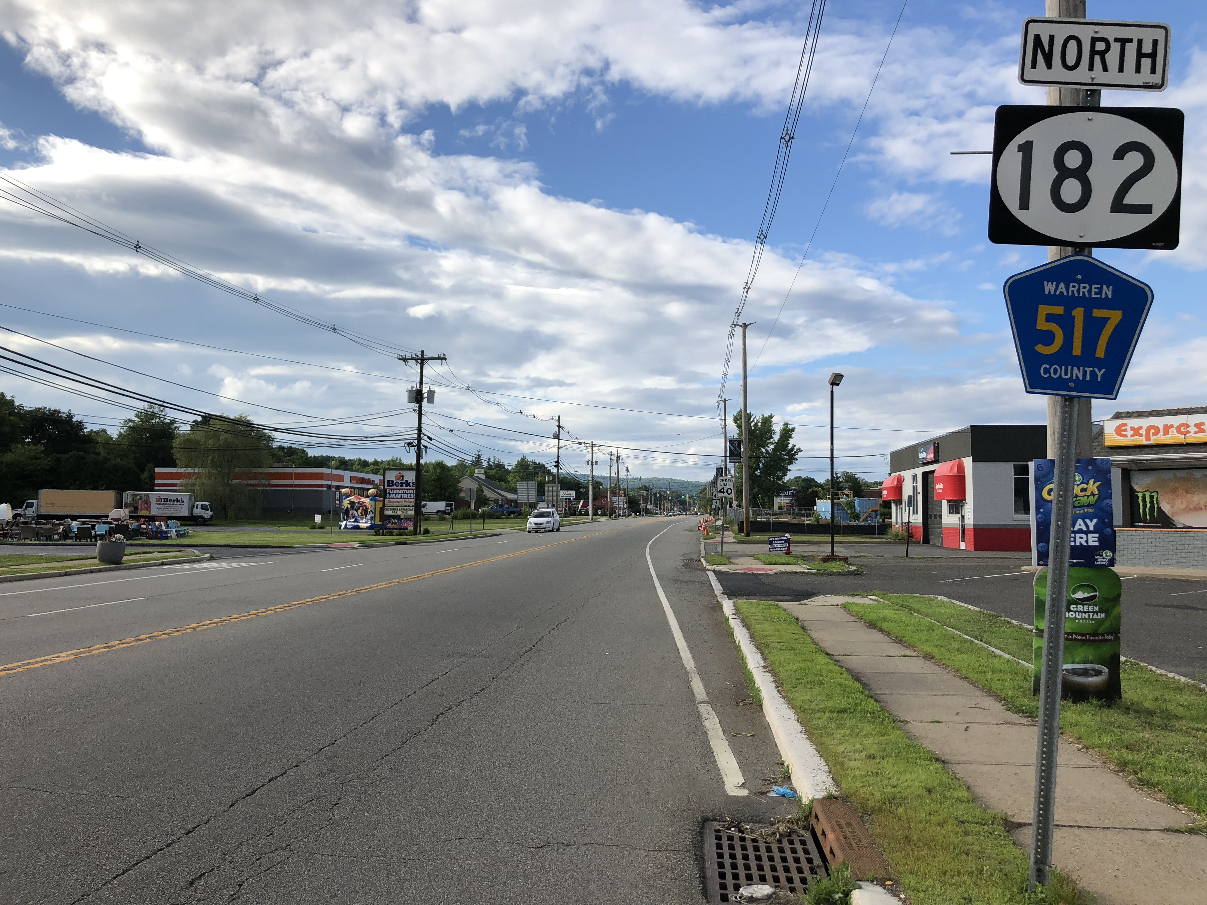 View north along New Jersey State Route 182 and Warren County Route 517 (Mountain Avenue) just north of New Jersey State Route 57 in Hackettstown, Warren County, New Jersey